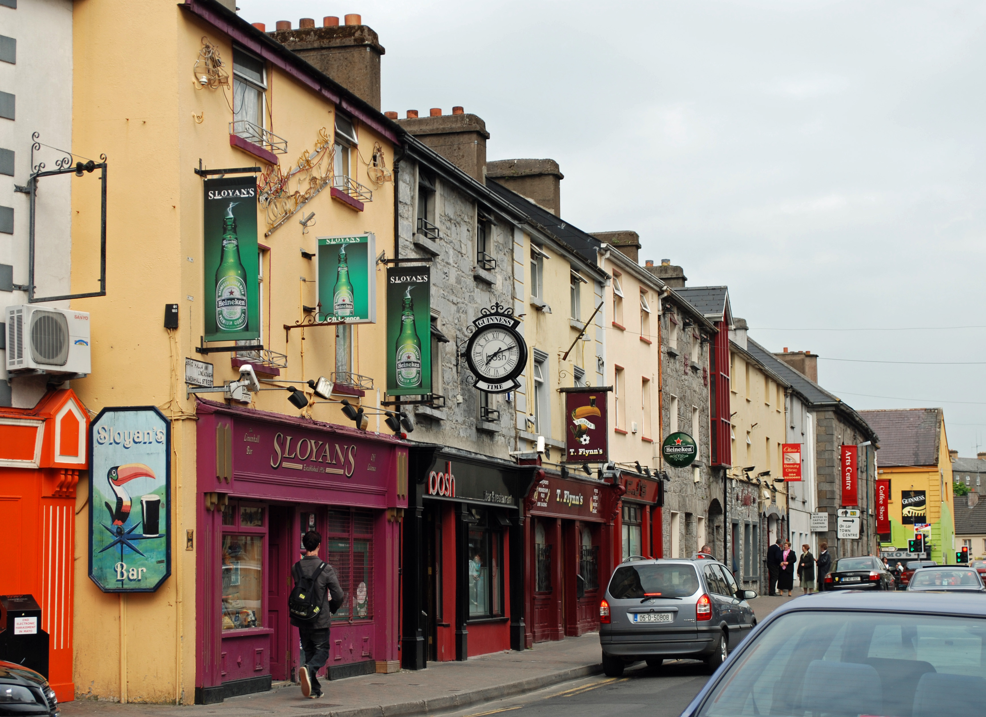 Image of Linenhall Street, looking towards Rush St., Castlebar, Mayo, Eire